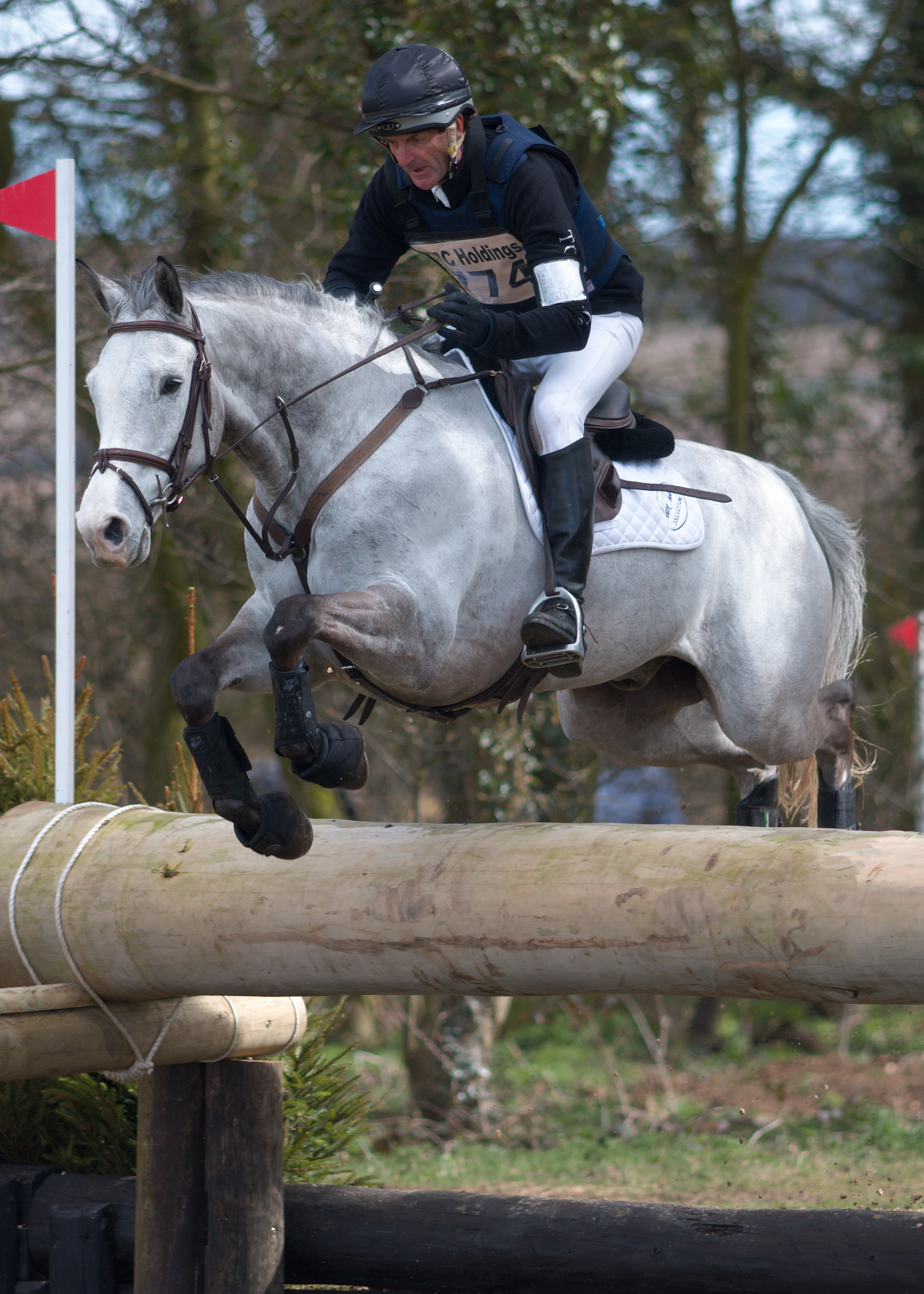 Mark Todd and Regent Lad at the Elephant Trap during the cross-country phase of the CIC** (Section O) competition at Burnham Market International Horse Trials 2010.